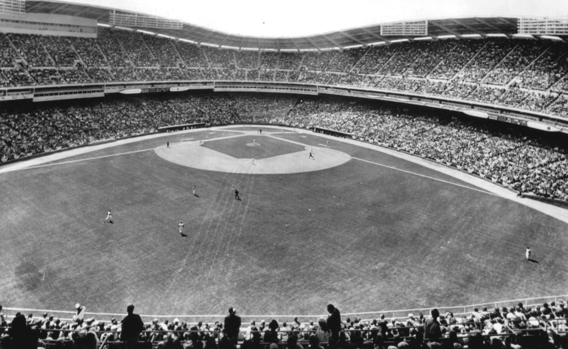 District of Columbia Stadium (now known as Robert F. Kennedy Memorial Stadium) in Washington, D.C.